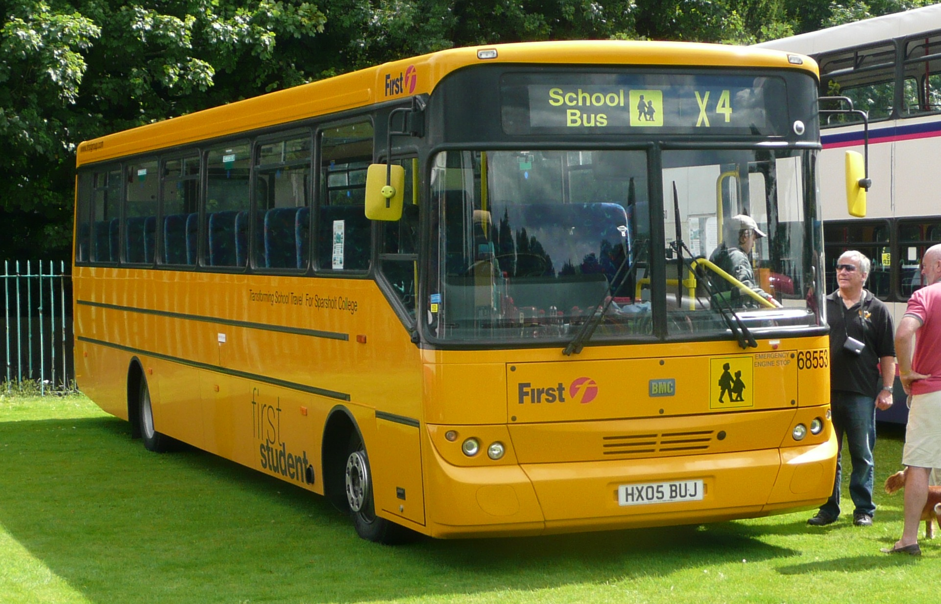 A bus operated by First Hampshire & Dorset as part of the First Student UK schoolbus scheme. It is seen at the 2008 Alton bus rally.